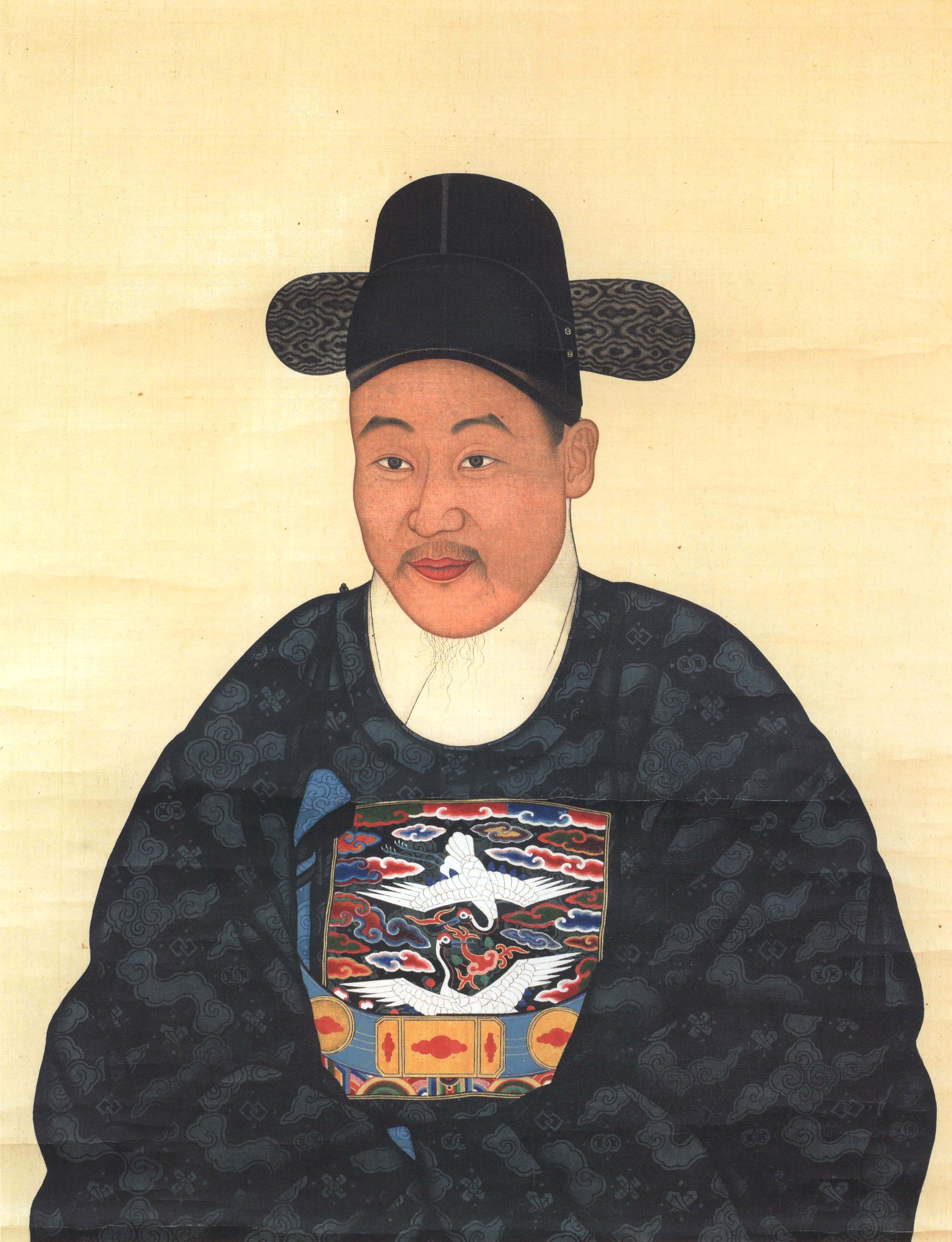 Prince Imperial Heung, Lee Jae-myeon Portrait